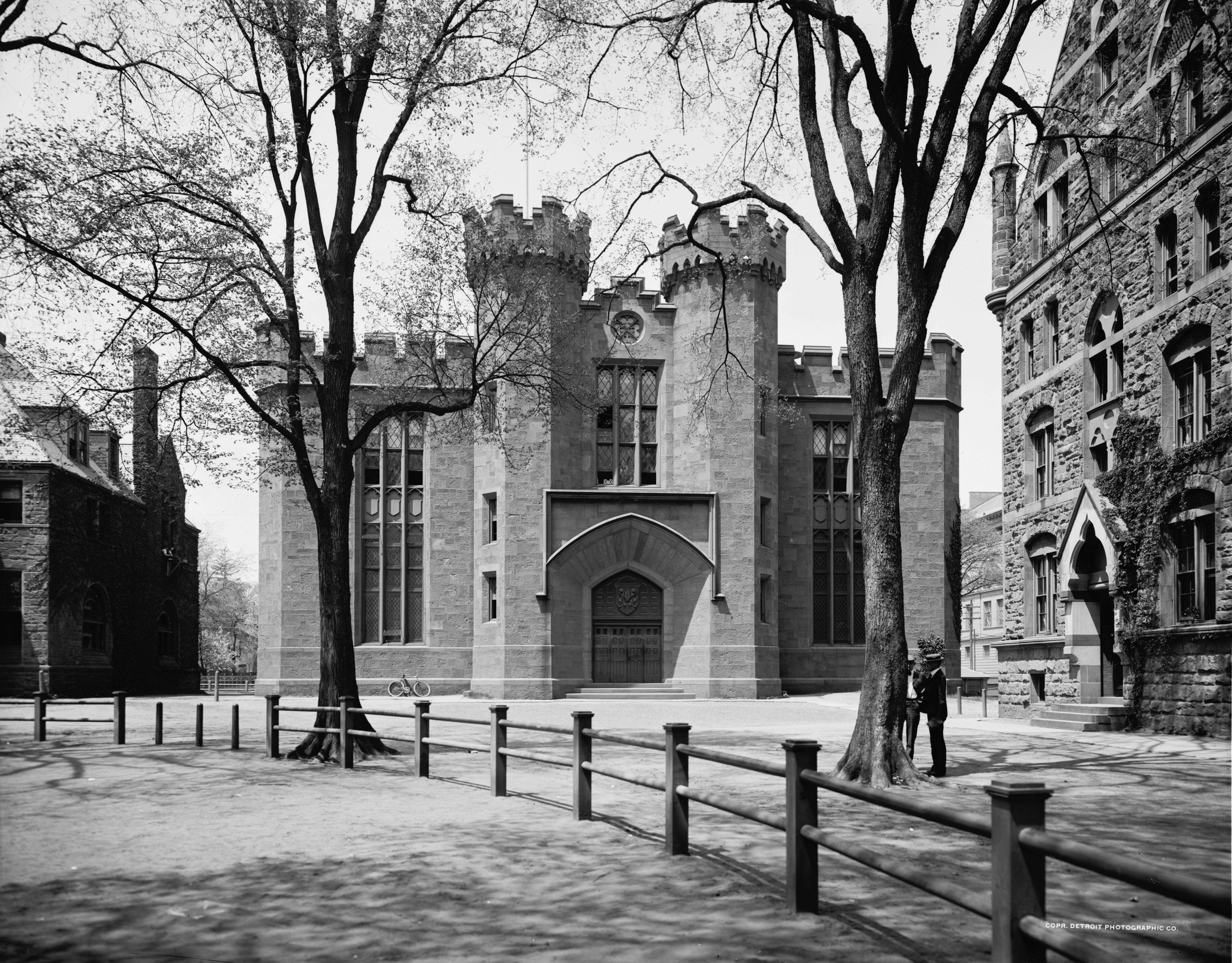 Alumni Hall, on the current site of Lanam-Wright Hall on the Yale University Old Campus. Taken c.1901 by William Henry Jackson of the Detroit Publishing Co. det.4a08752